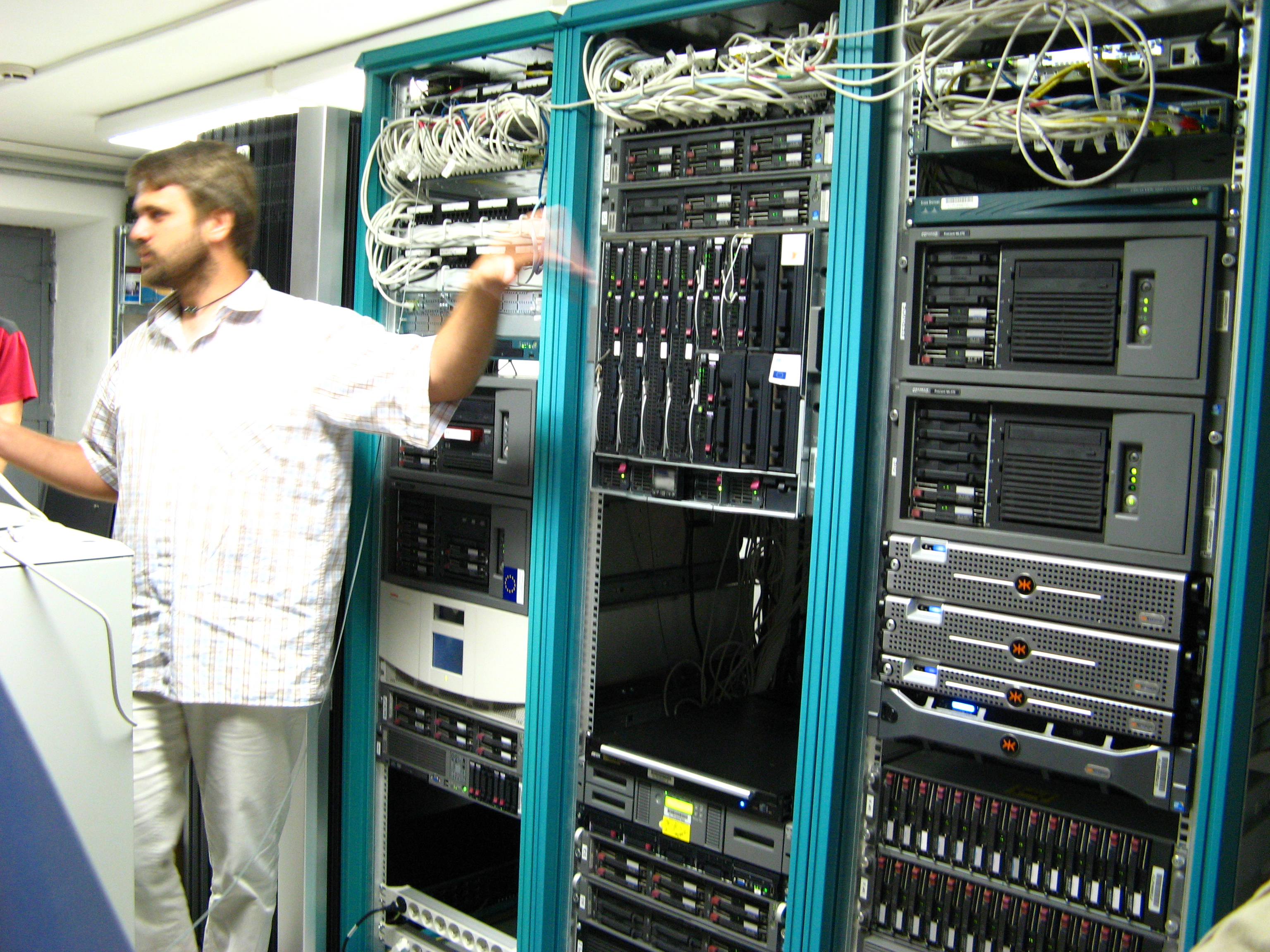 New provincial palace, Zerotinovo square 3/5, Brno, Czech Republic. Server room.